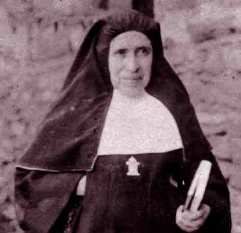 Maria Güell's portrait, ca. 1915, foundress of the Pious Institute of Charity of the Hearth of Mary.